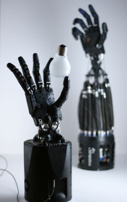 Image showing both the motor and muscle actuated versions of the Shadow dexterous hand.